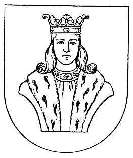 Coat of arms of Stockholm, Sweden